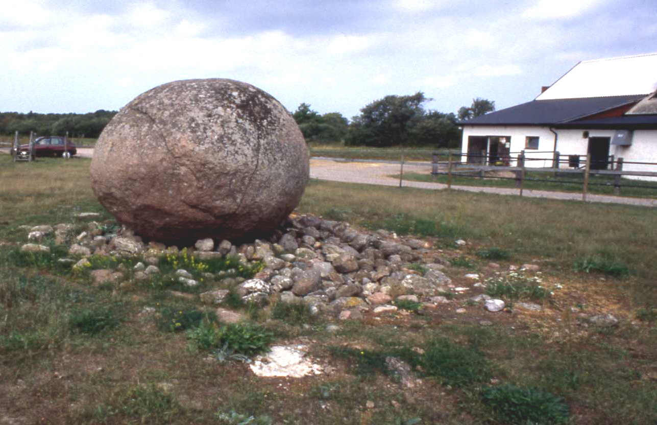 Boulder Kroppkakor